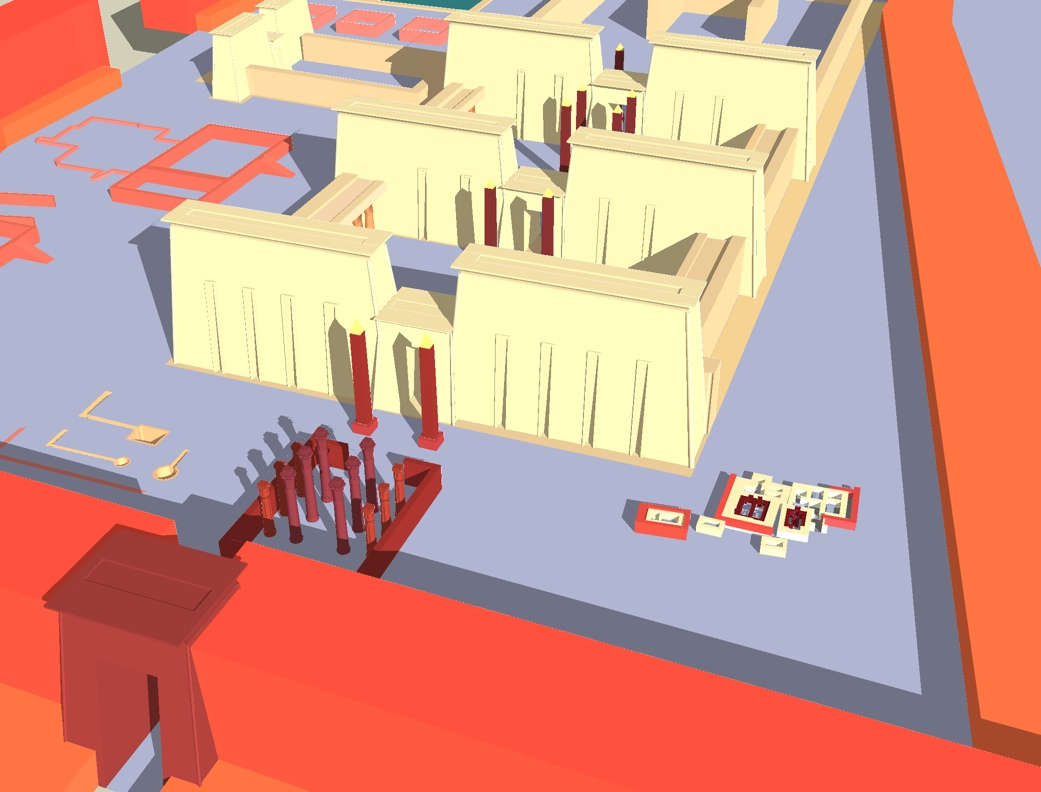 Restored view of Amun temple and the royal necropolis.